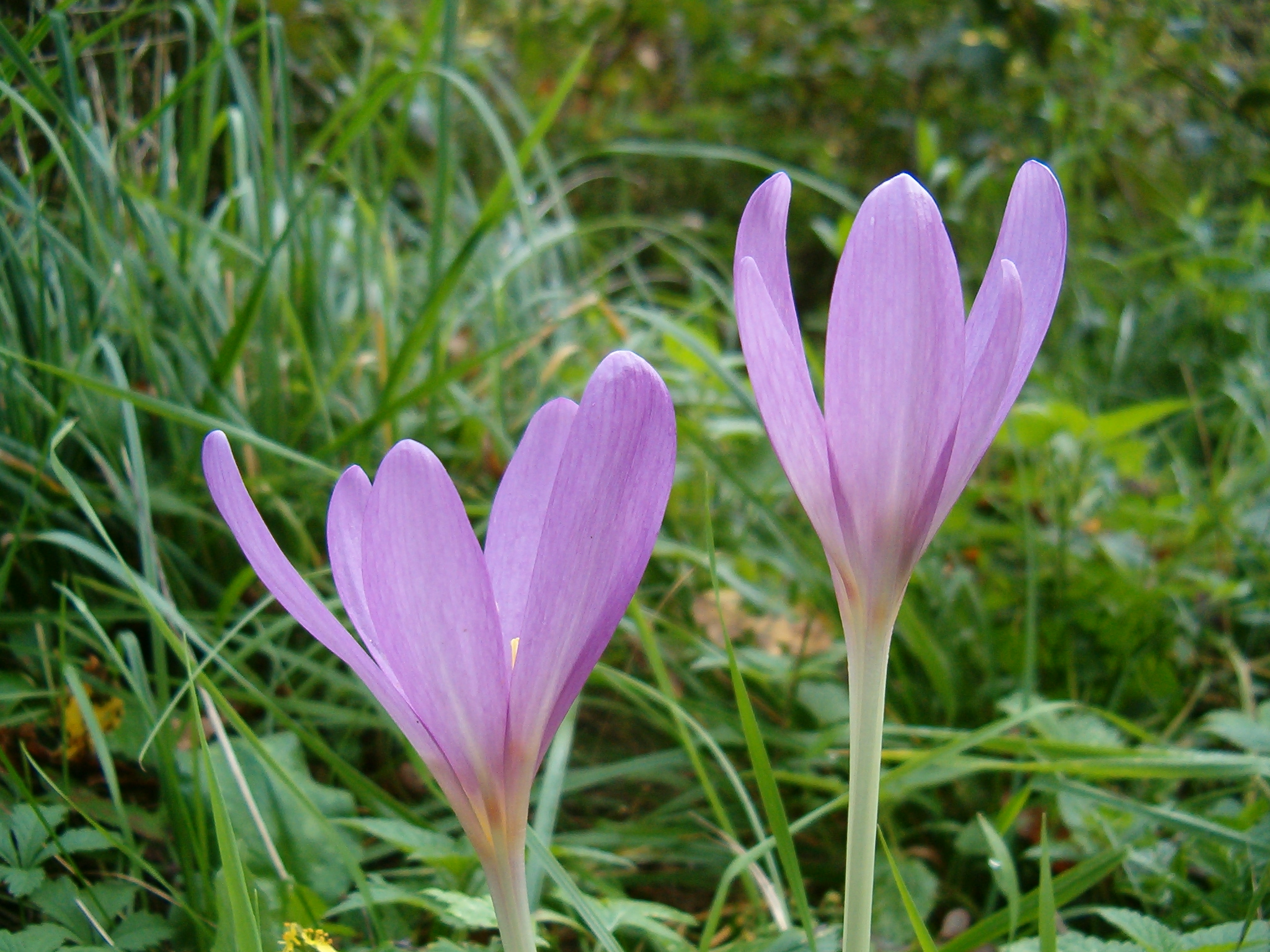 Autumn crocus (Colchicum autumnale) (Börzsöny Mts., Hungary)